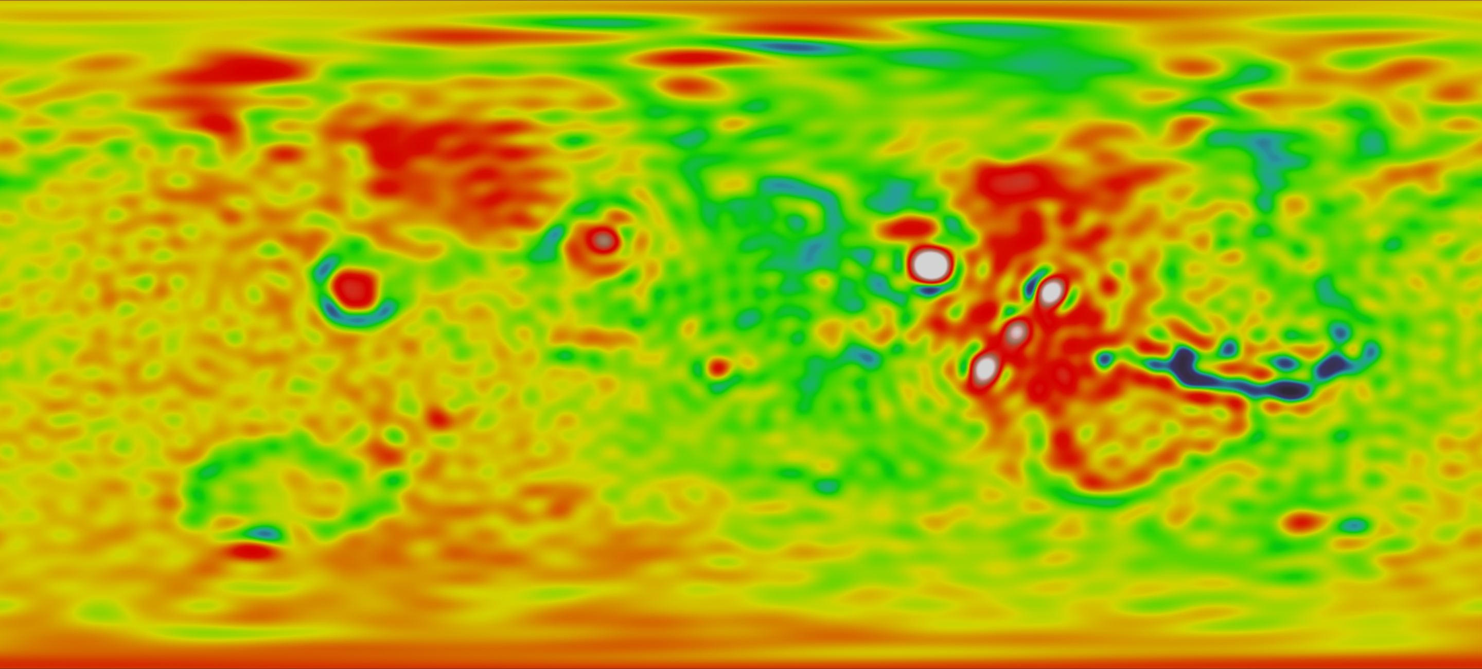 This map portrays observed data describing Mars's gravitational field. Seen here, white and red areas depict regions with the strongest gravitational force, while green and blue areas are the weakest. This image was generated by data reported by the Radio Science Experiment.